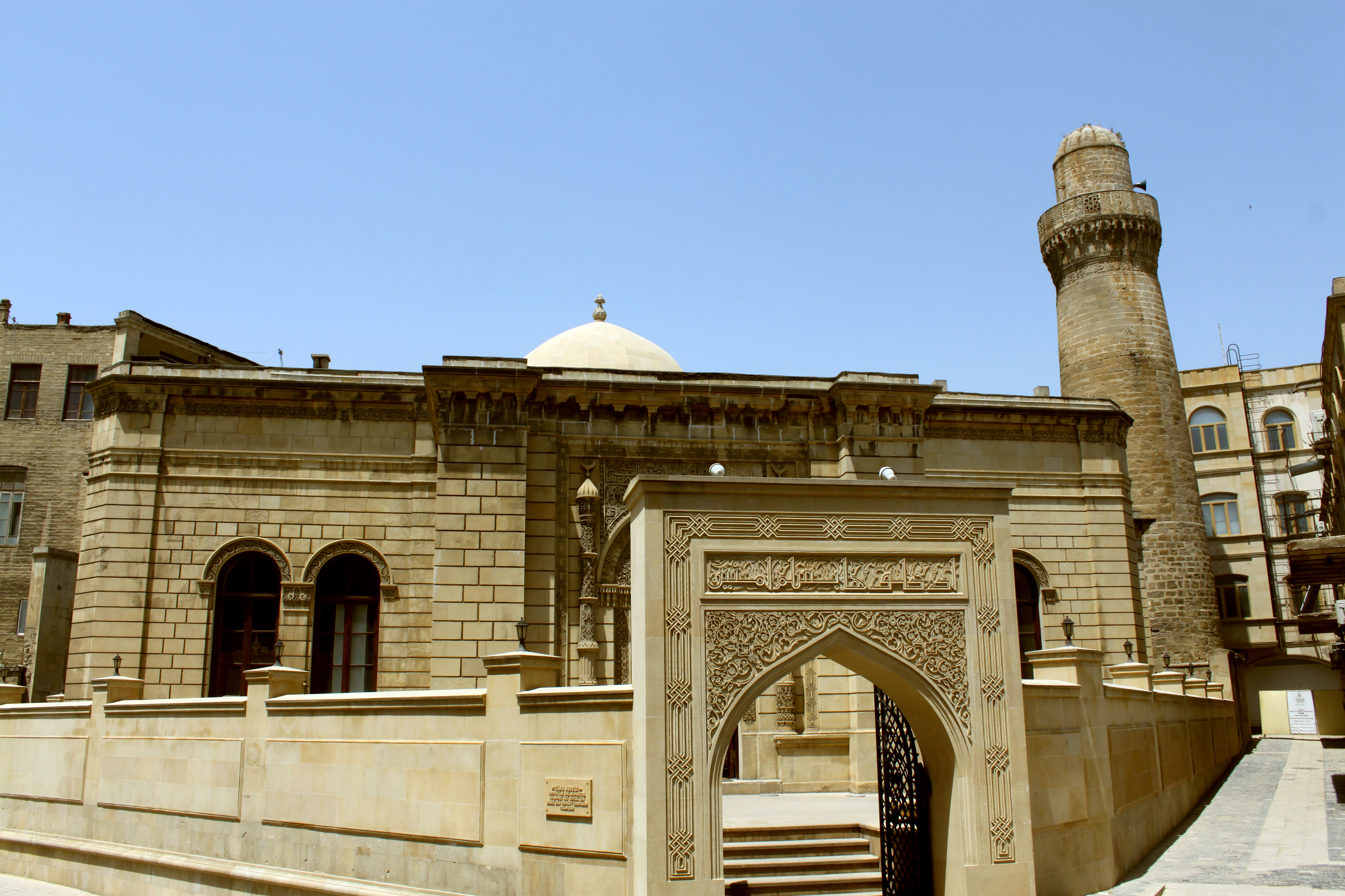 Juma Mosque (Baku)